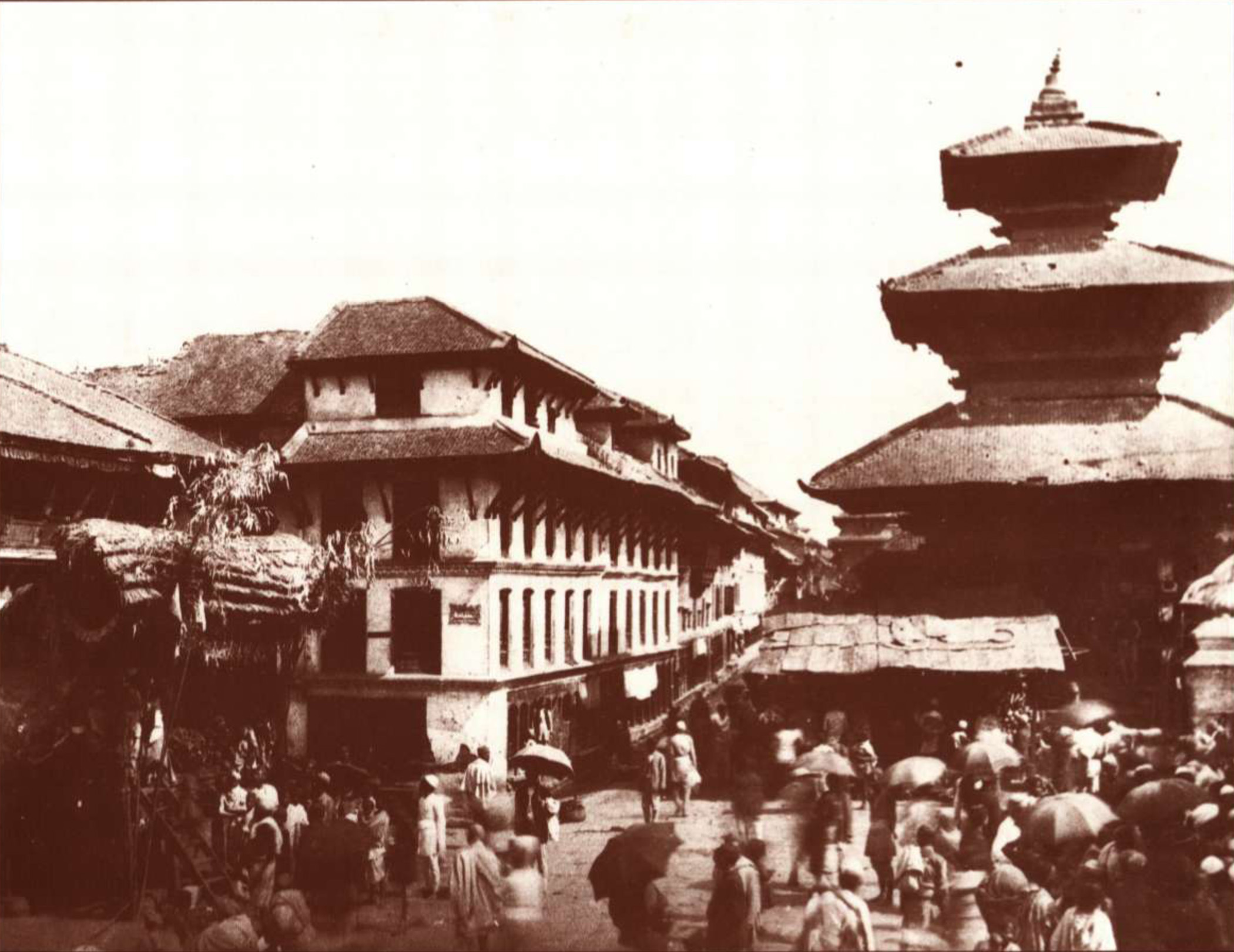 Northern side of Indra Chok, Kathmandu in 1910 AD.